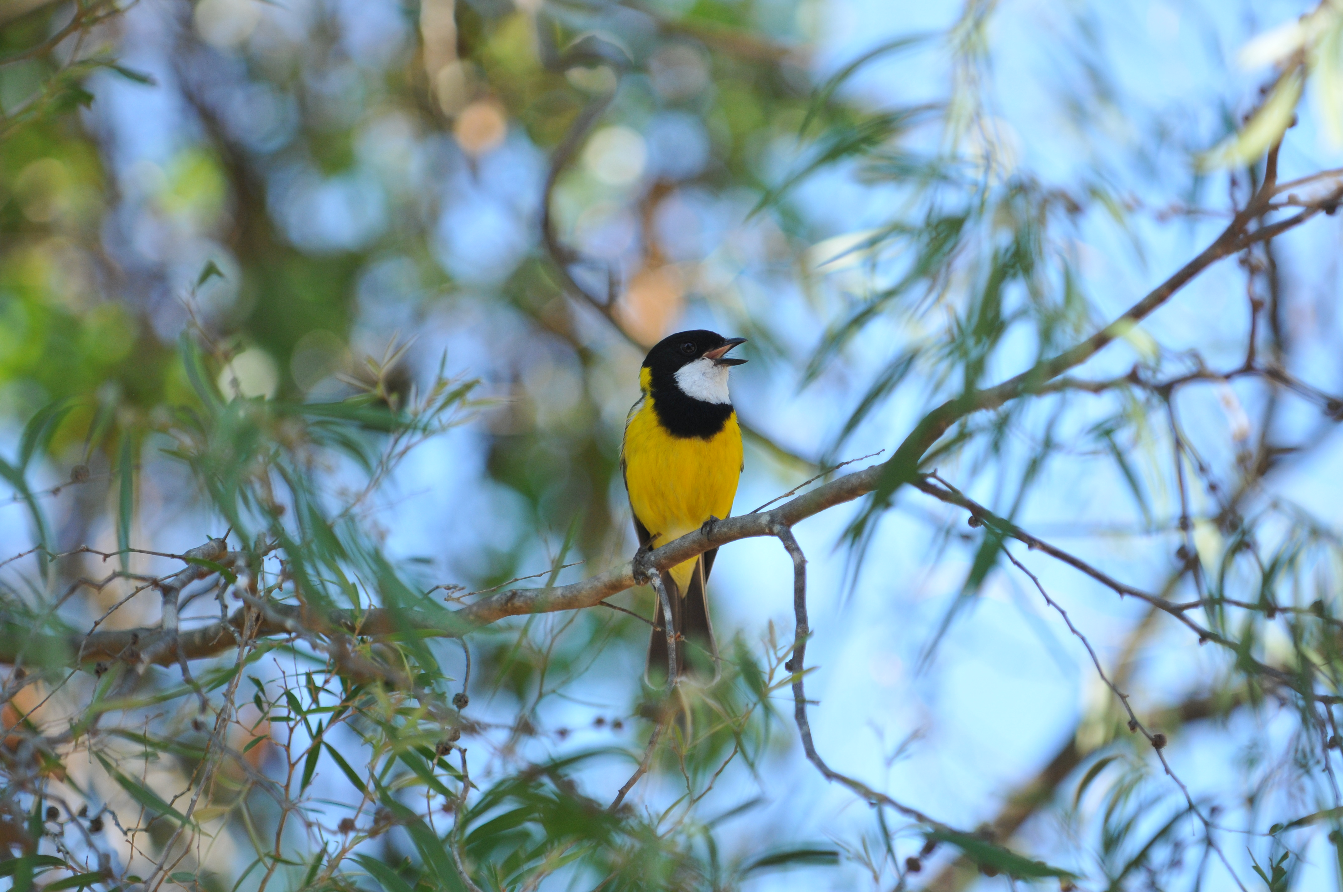 Photograph of a Golden whistler singing